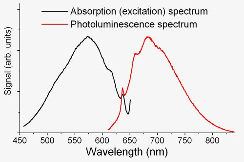 absorption/emission spectrum of N-V- center in diamond at 300K